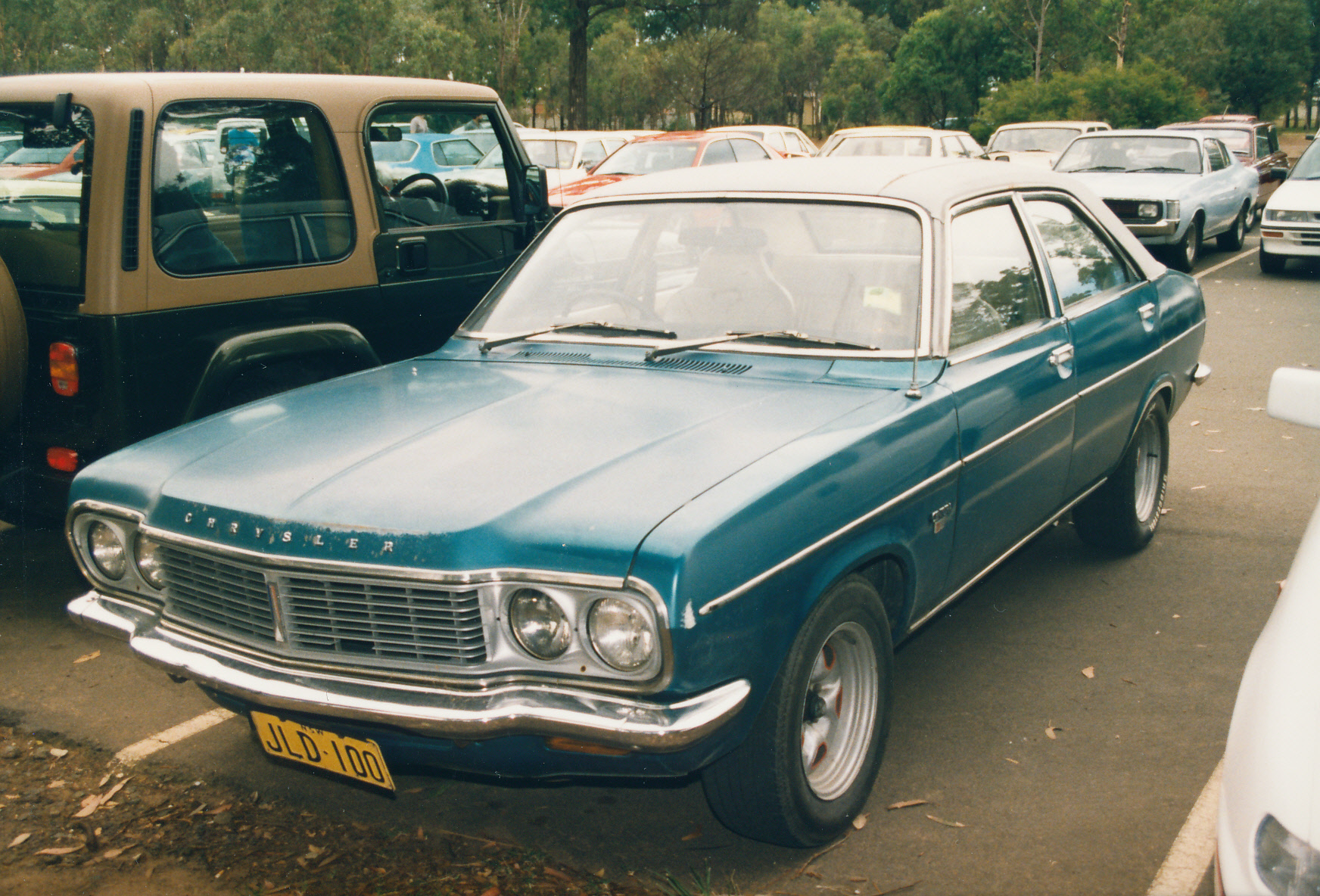 This image is a scan of a 35 mm print taken in 1998